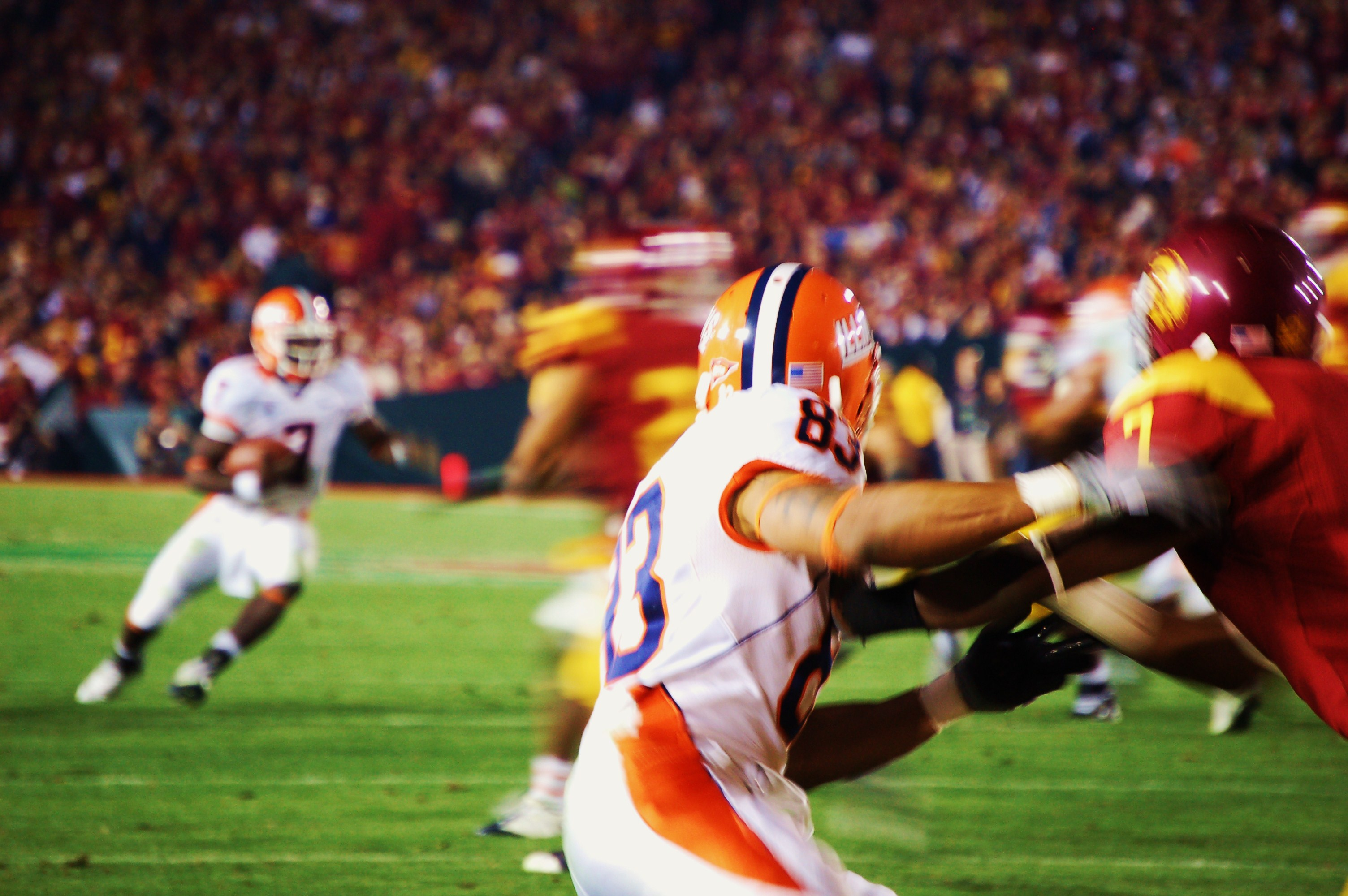 In-game scene from the 2008 Rose Bowl game in College Football between the University of Southern California and the University of Illinois at Urbana-Champaign; January 1, 2008